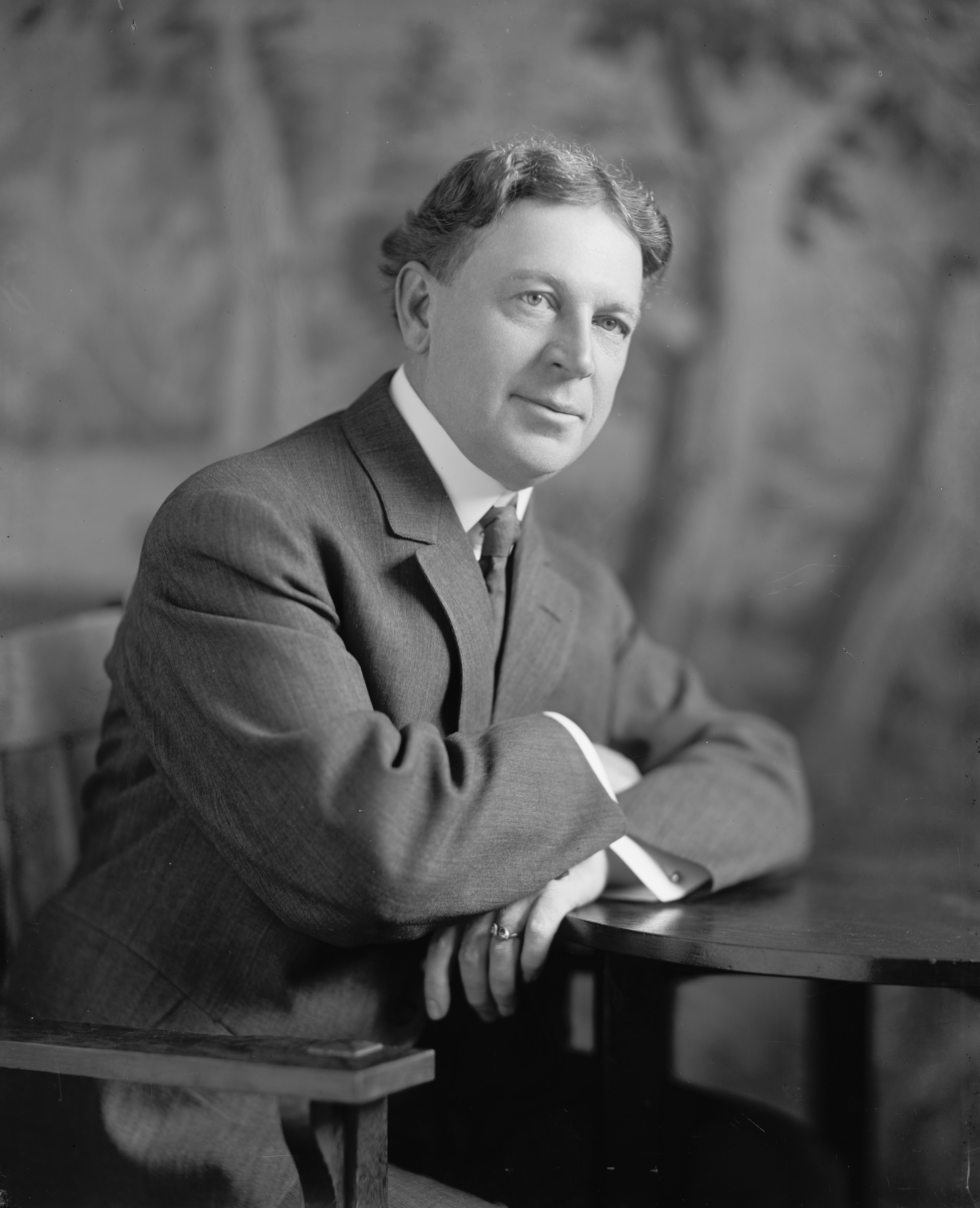 Title: JOHNSON, ALBERT. HONORABLE Abstract/medium: 1 negative : glass ; 8 x 10 in. or smaller